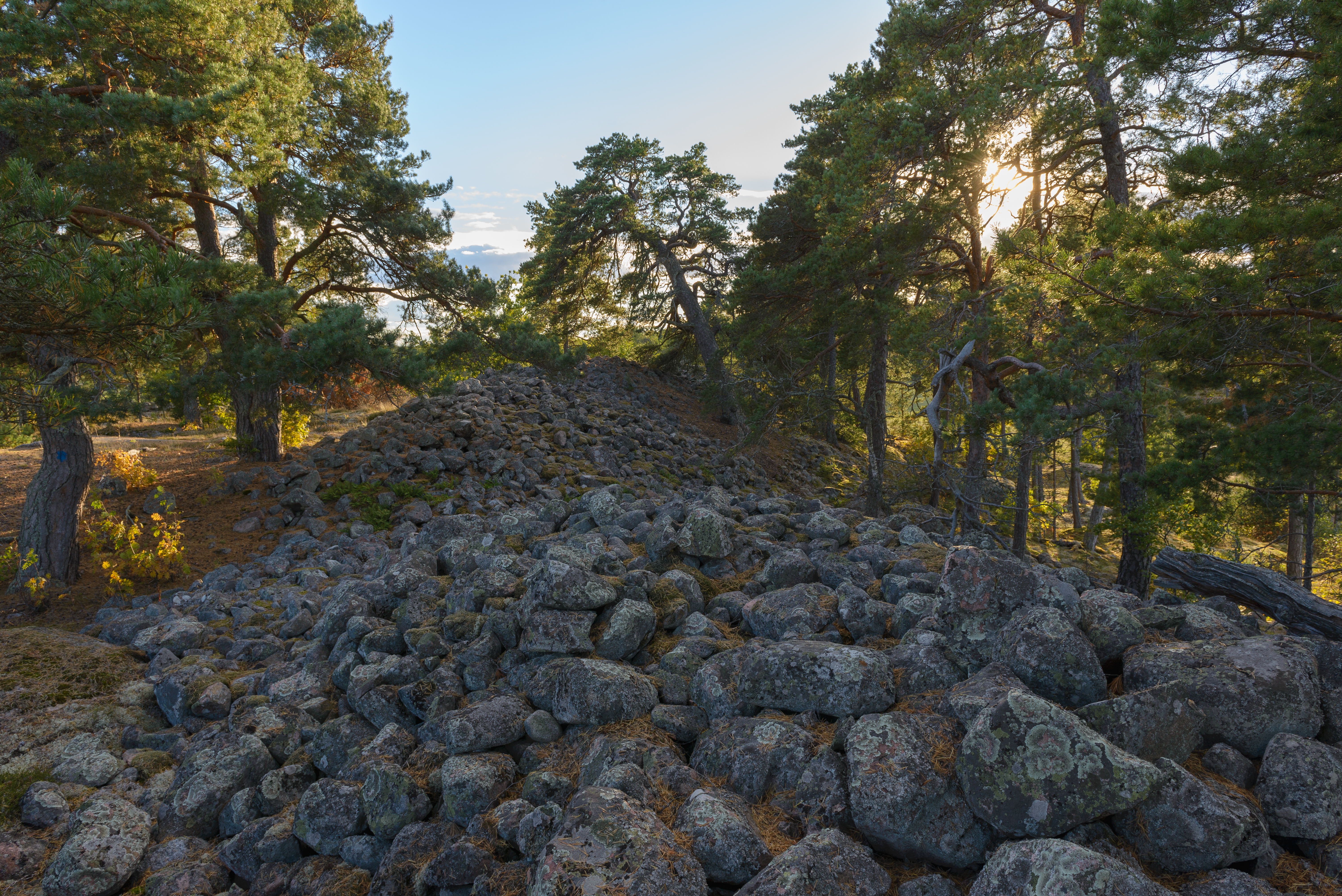 Hill fort "Skansberget". Adelsö, Ekerö municipality, Stockholm County.